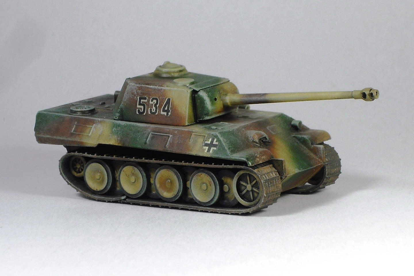 Built-up model of Ikko HO scale Panther